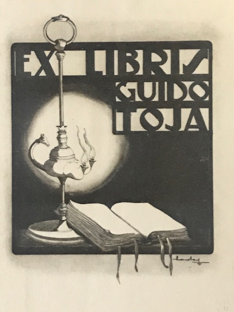 Ex libris of the Italian mathematician Guido Toja (1870-1933)